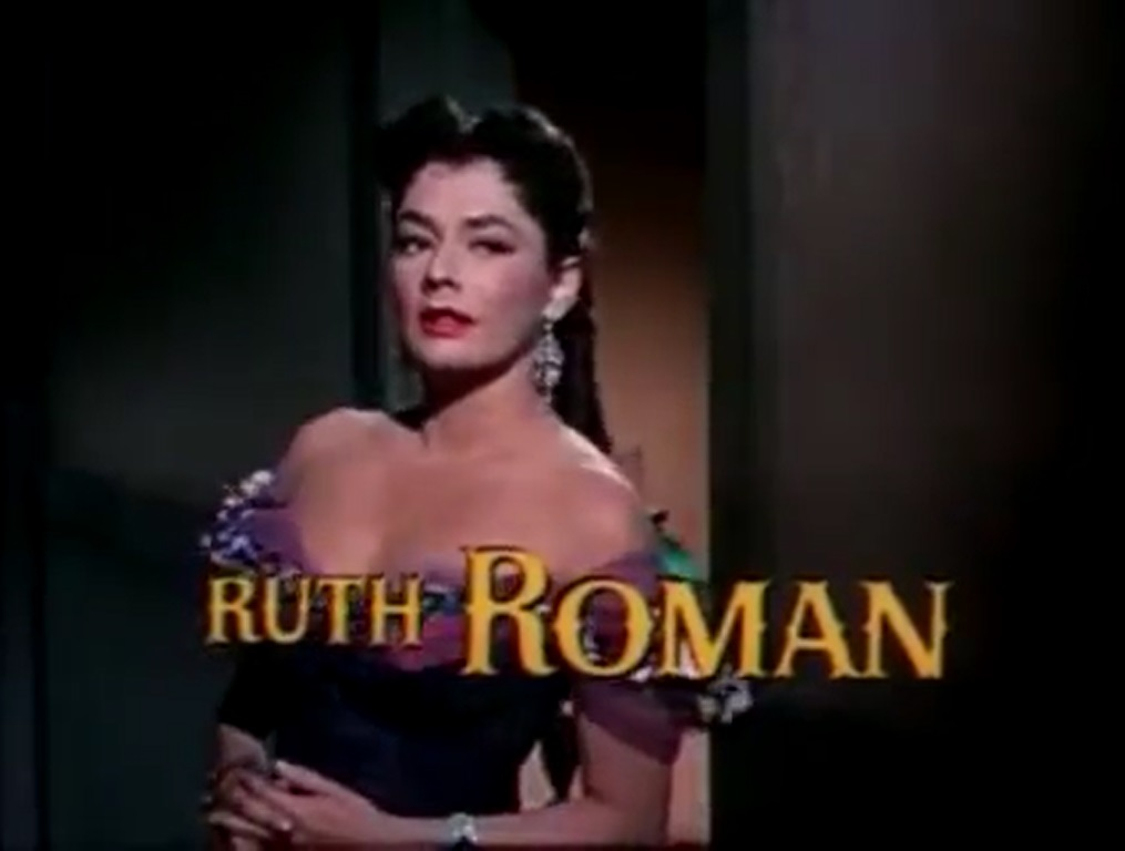 Screenshot of actress Ruth Roman in the trailer for the 1956 film Great Day in the Morning.